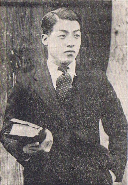 KOYAMA Sousuke